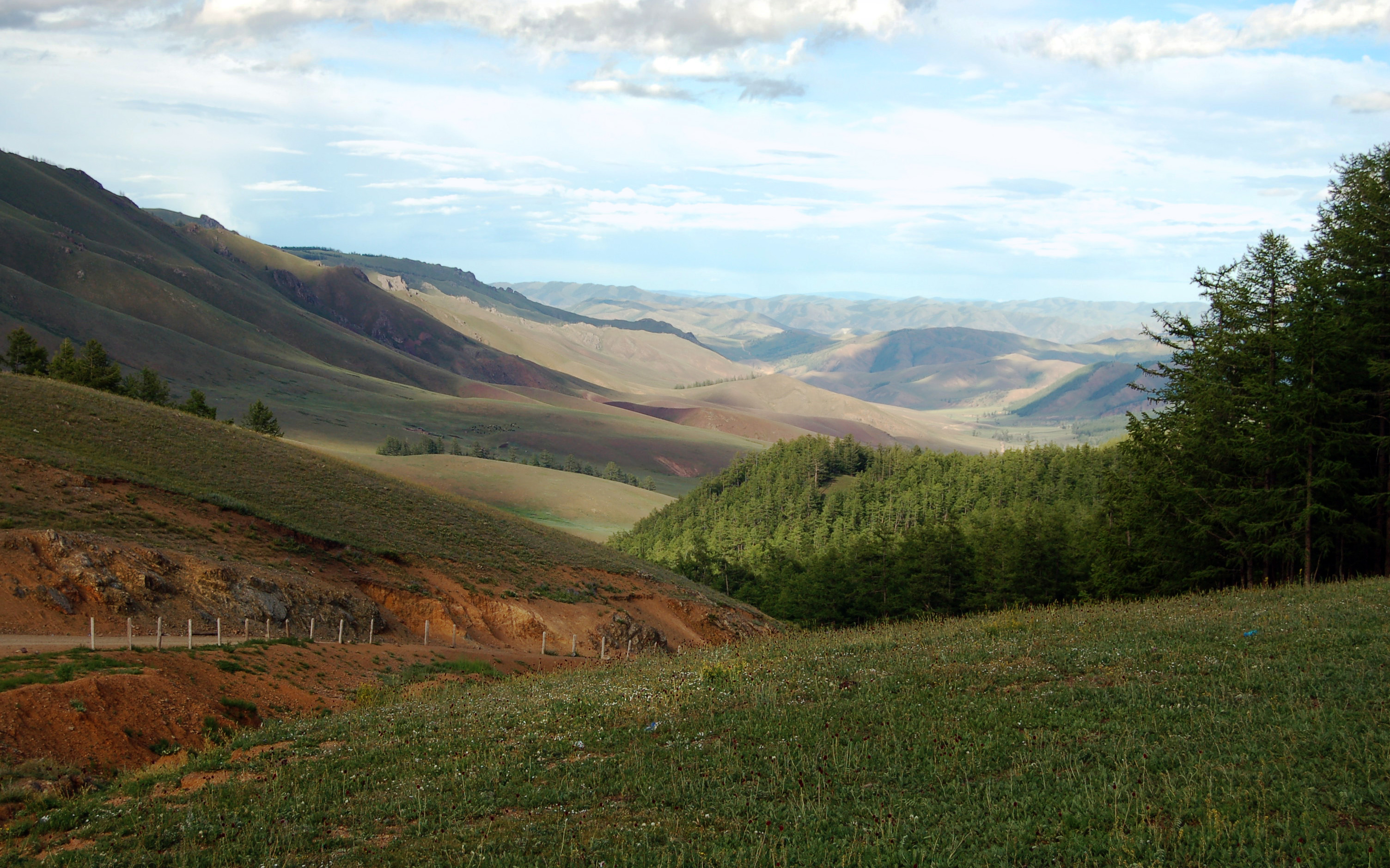 Tarvagatai Mountains in Khangai Mountains, Mongolia. A mountain pass between Mörön and Terhiyn Tsagan Nur